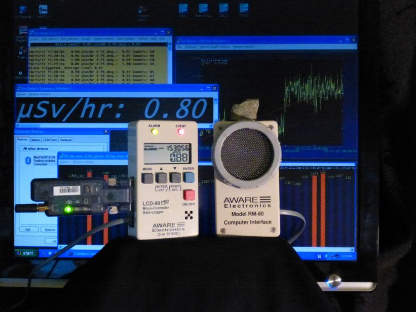 GM detector with thin mica window pancake detector plugged into a microcontroller data-logger with Class 1 Bluetooth adapter sending radiation levels to a PC using radio signals. A radioactive rock was placed on top the GM detector causing the graph to rise.